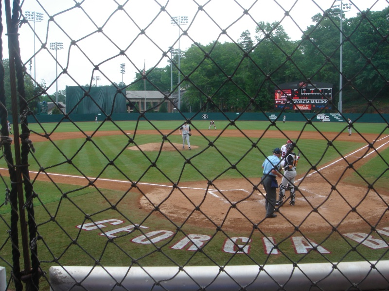 This image shows Foley Field from behind the dugout at the University of Georgia in Athens, Georgia. This photograph was taken by User:pruddle (the uploader) in April 2006.